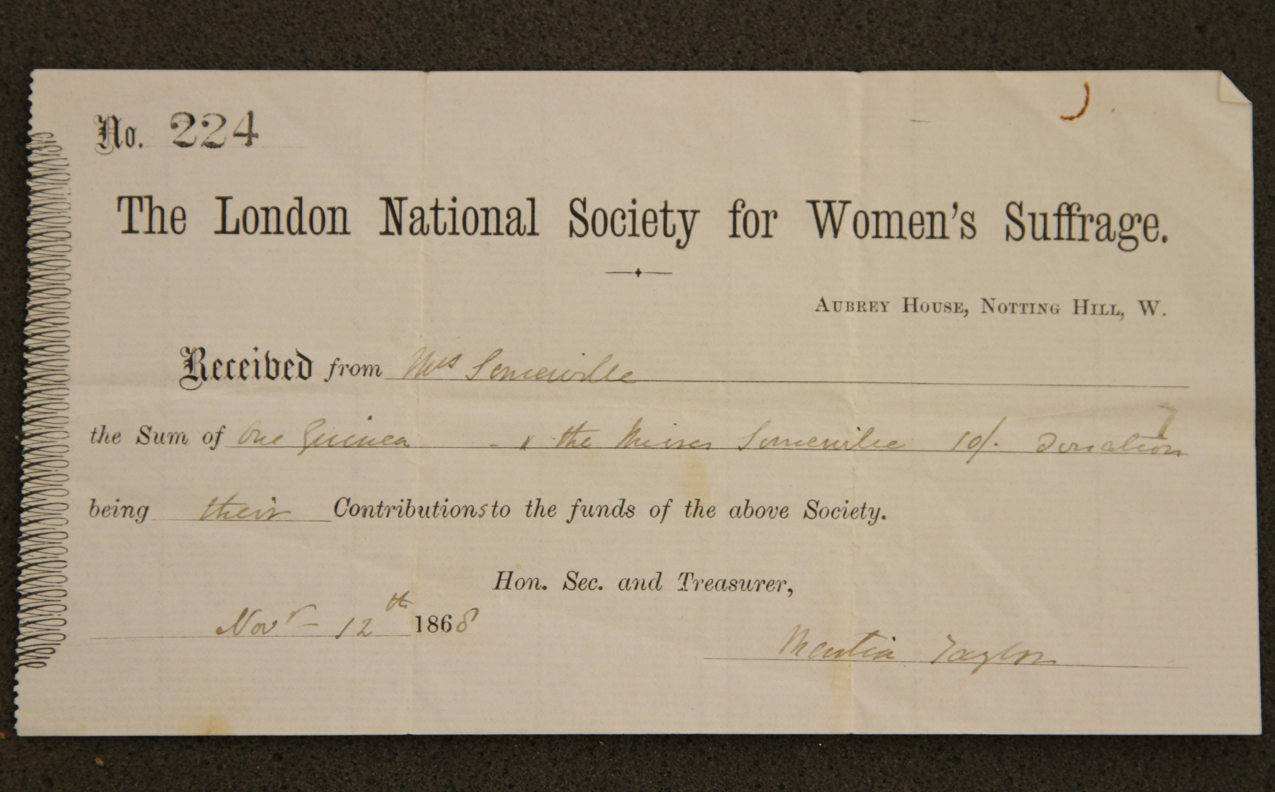 Receipt for donation to the London National Society for Women's Suffrage by the scientist Mary Somerville and her daughters. From a collection of documents shelfmarked Dep. c. 376.